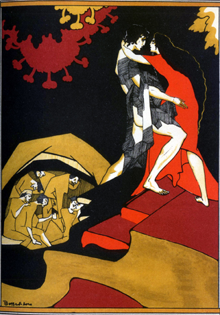 Illustration from The Golden Ass. Charitë embraces her lover while Lucius, within the cave, looks on.